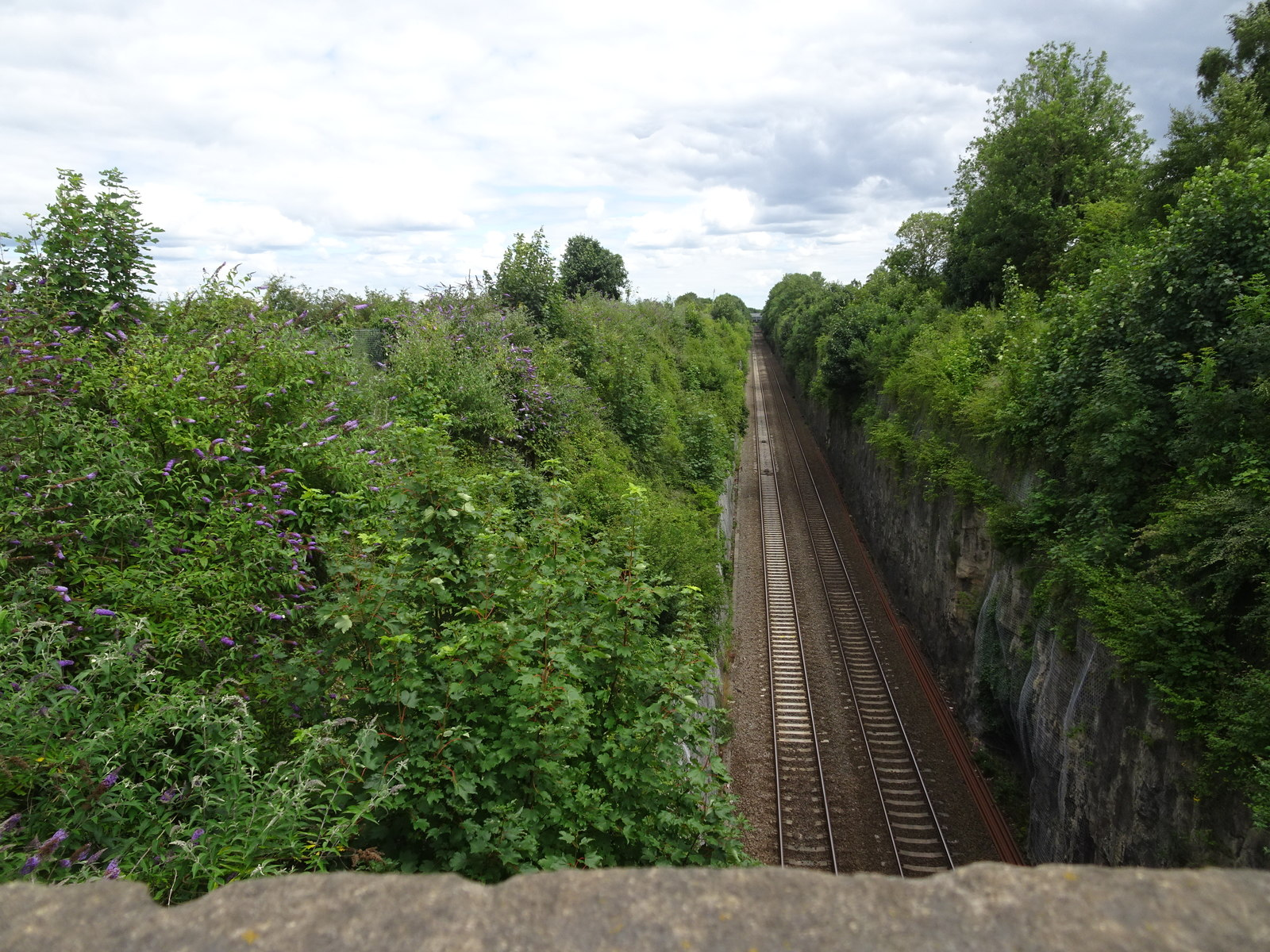 Sprotborough (SYR) railway station (site), YorkshireOpened in 1850 by the South Yorkshire Railway, later part of the Manchester Sheffield & Lincolnshire Railway, on the line from Mexborough to Doncaster, this station closed in 1875. View east towards Doncaster. This is a very improbable location for a station, being in a deep and narrow cutting. The 1892 OS map refers to the bridge here as "Station Bridge" and the 1852 map shows 2 slightly staggered platforms in the cutting to the east of the bridge, although no station is named. One of Yorkshire's more esoteric railway station sites...